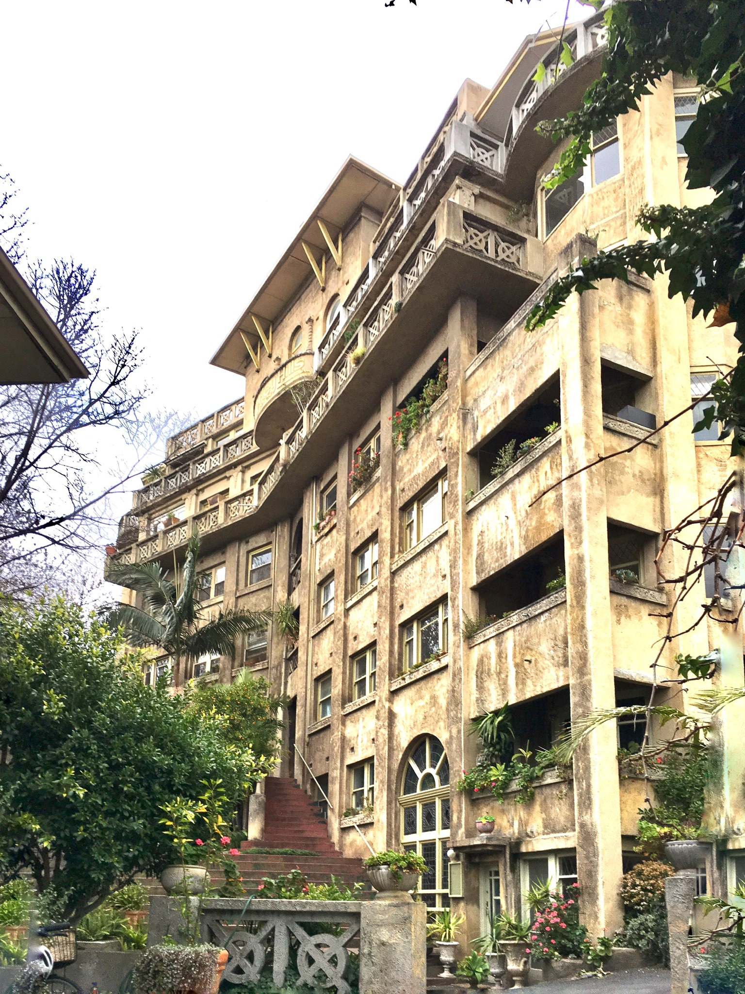 Beverley Hill apartments South Yarra 2